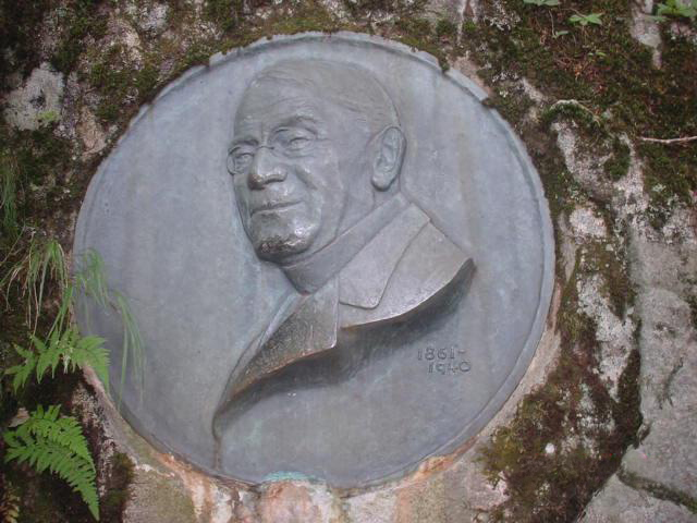 Reverend Walter Weston (1861-1940) - memorial at Kamikochi, Japan Taken and uploaded by Ian Ruxton (Historian)